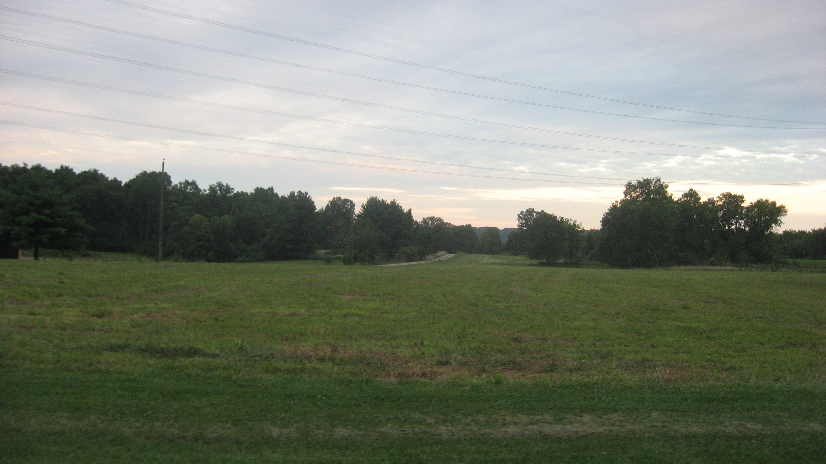 Driveway at the Shaw Farm, located at 3357 State Route 126 west of Ross in Ross Township, Butler County, Ohio, United States. Established in 1804, the farm is listed on the National Register of Historic Places.